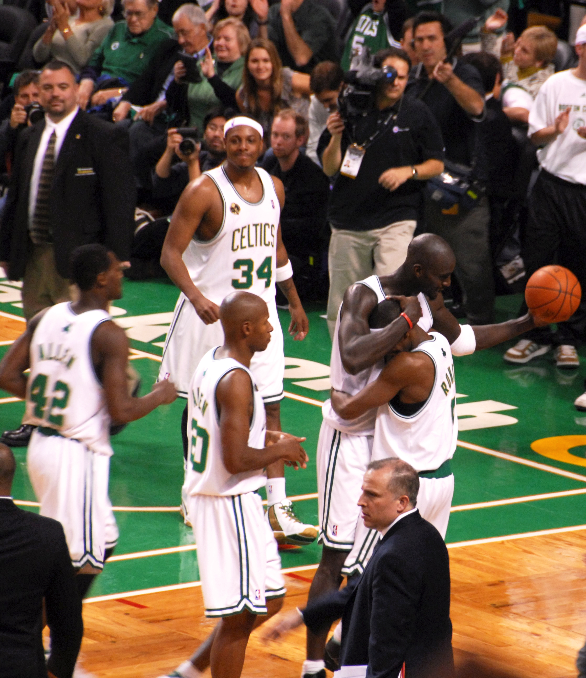 Buddy-Icon von Eric Kilby Cavs @ Celtics 10/28/2008